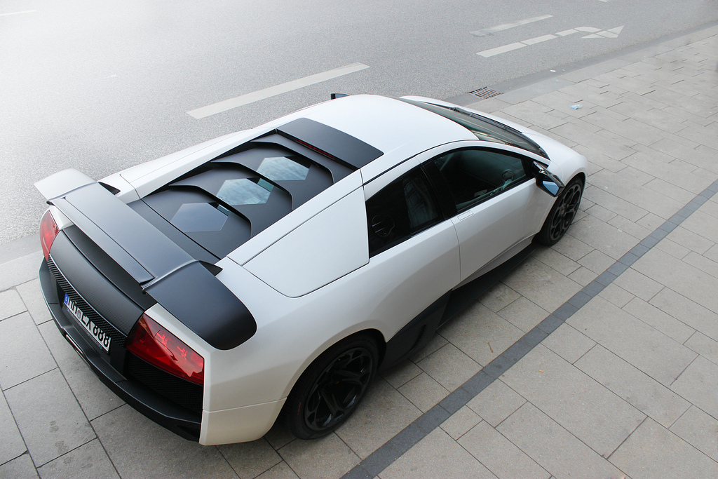 Hamburg, 2nd April of 2011 This car is so amazing, i just love it, especially with that big rear spoiler and in that color combo! What a luck for me that it stand there, perfect arranged for a shot from above!